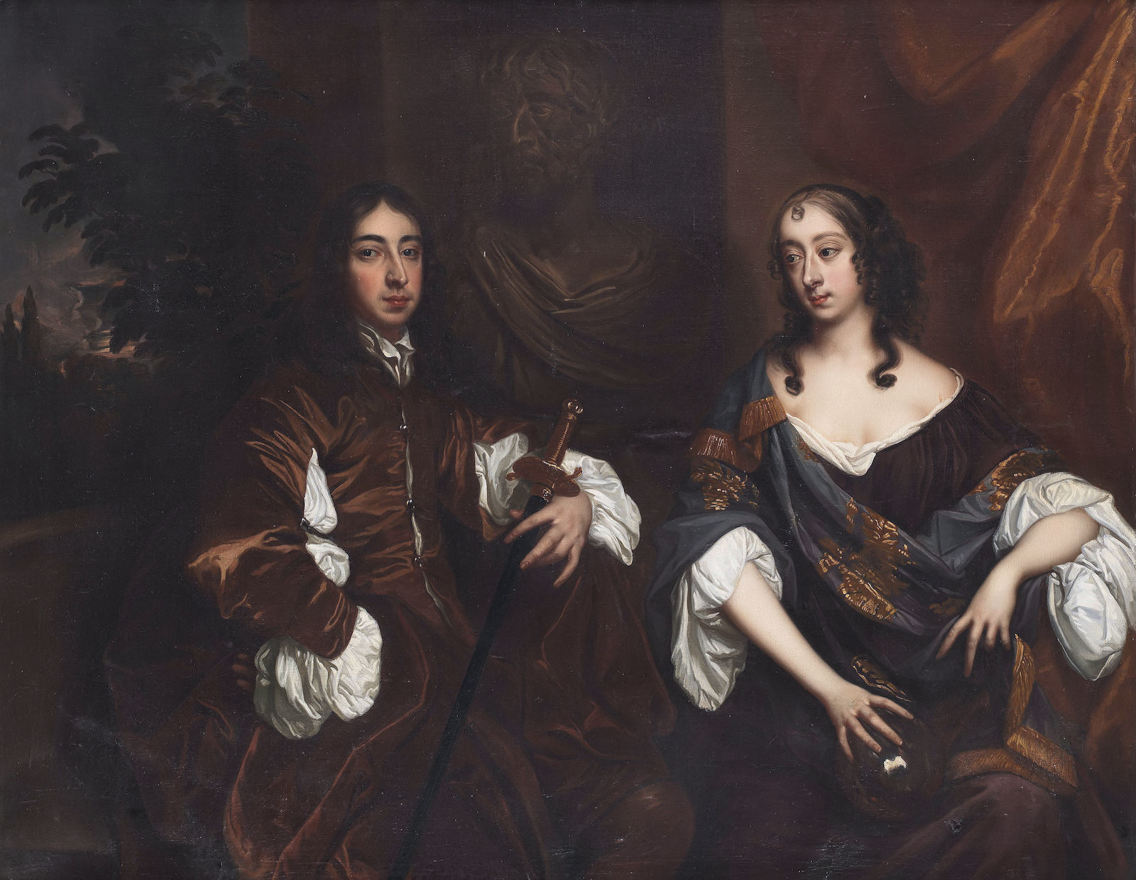 Arthur Capel, 1st Earl of Essex and Elizabeth, Countess of Essex oil on canvas 102.7 x 127.9 cm